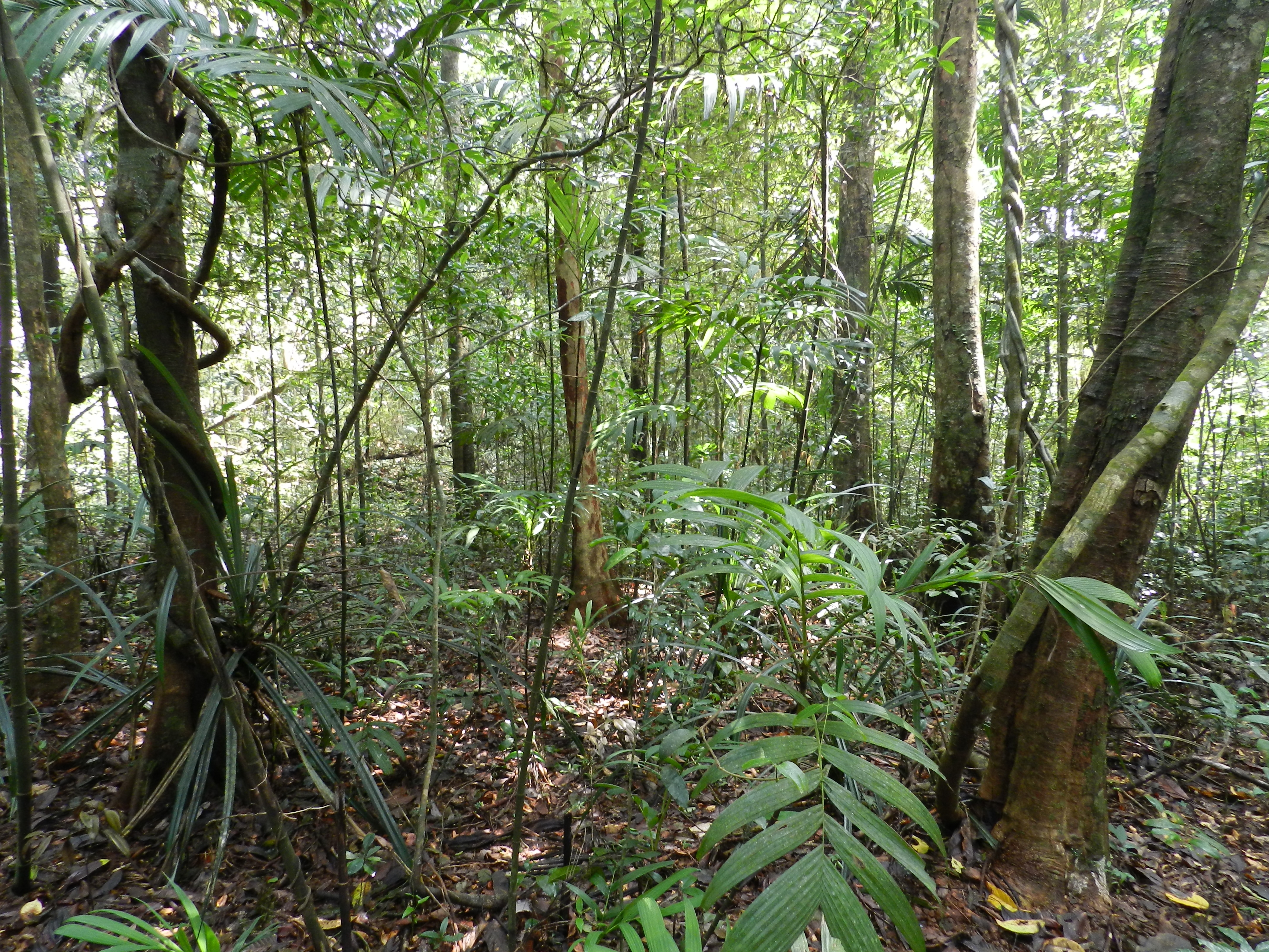 Tropical lowland rainforests in Agumbe, Karnataka